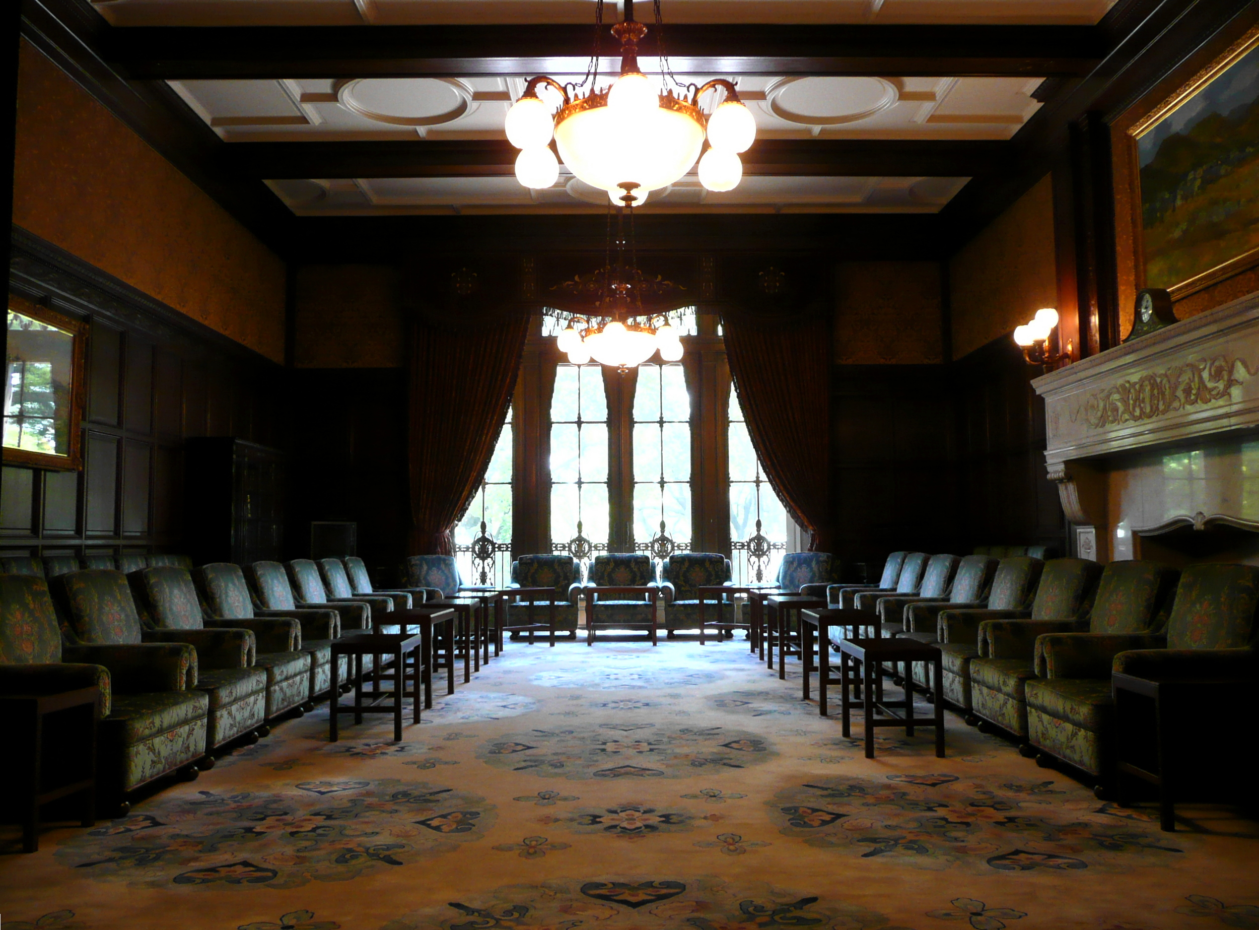 The waiting room adjacent to the Cabinet Room at the National Diet Building. 国会会期中、閣議の前に各大臣が集まる大臣室（参議院特別参観にて撮影）。